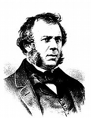 Michael Nairn (1804–1858)